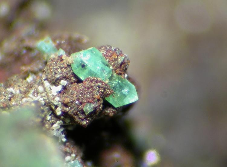 Zincolivenite Locality: Agios Konstantinos [St Constantine] (Kamariza), Lavrion District Mines, Lavrion (Laurion; Laurium) District, Attikí (Attica; Attika) Prefecture, Greece (Locality at ) A green 1 mm crystal of Zincolivenite. Fully analysed by S. Möckel, co-author of this new species. Specimen and photo Leon Hupperichs.